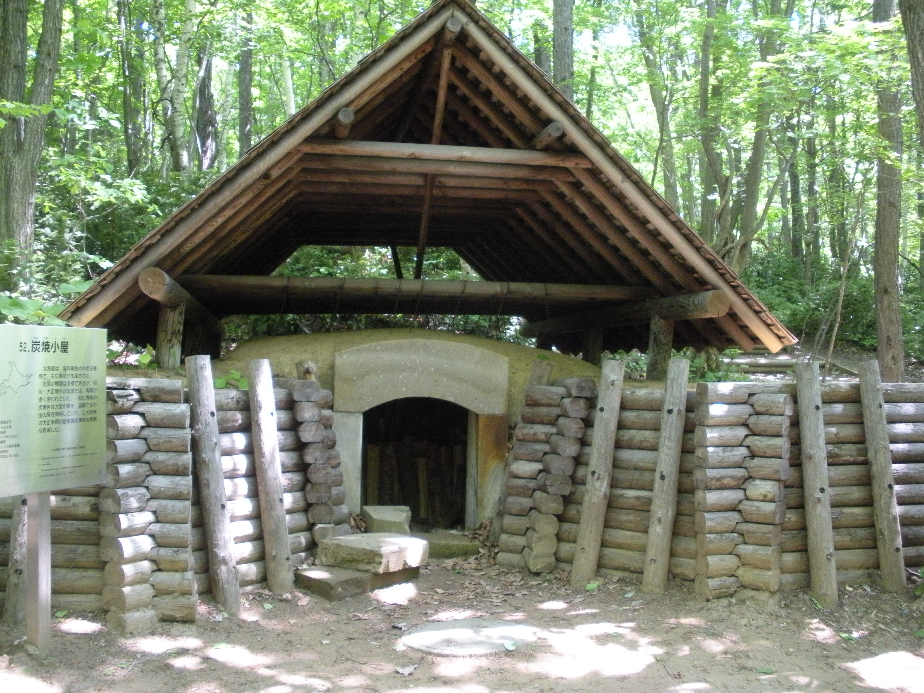 Japanese Charcoal Kiln